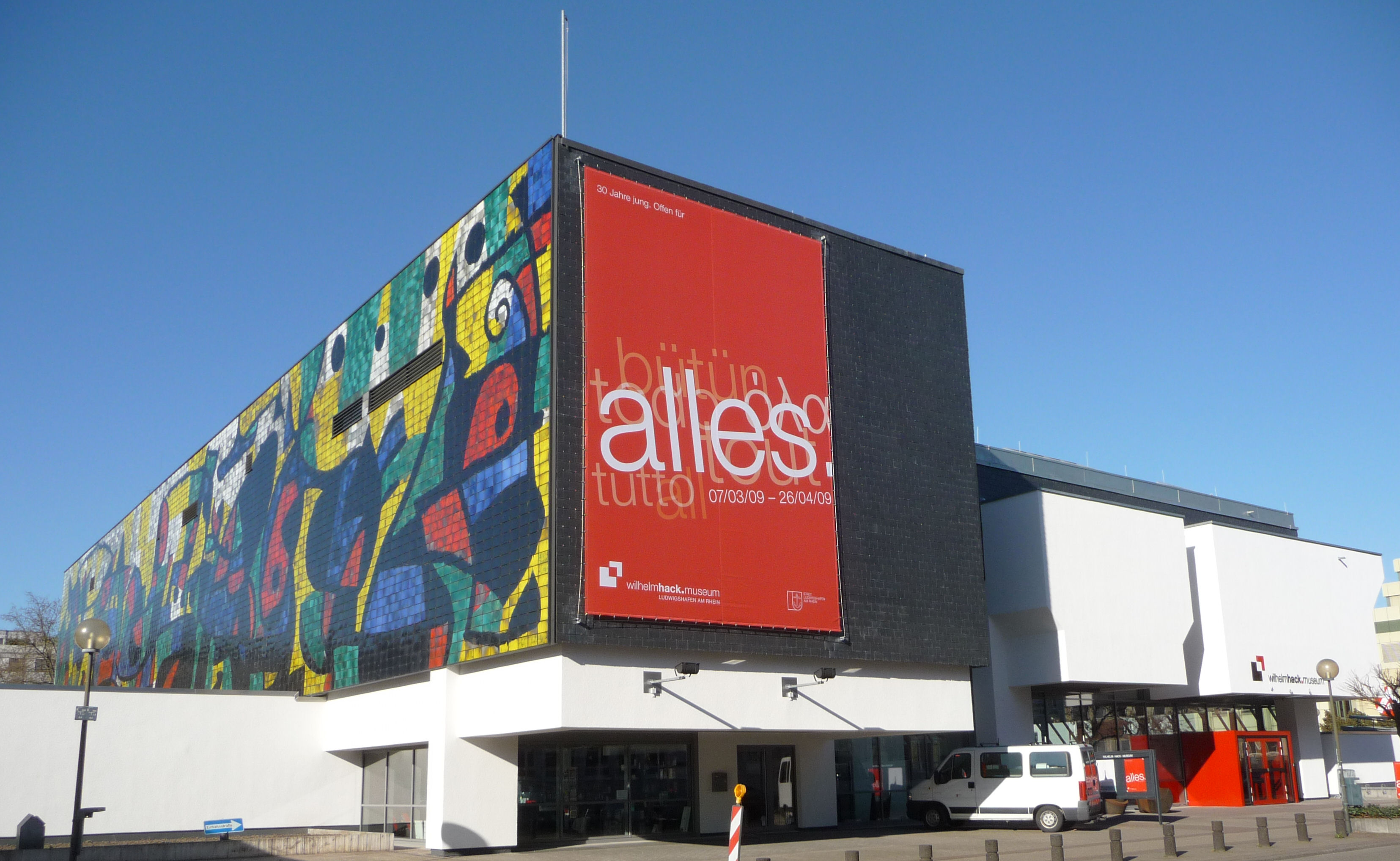 Museum in Ludwigshafen, Germany